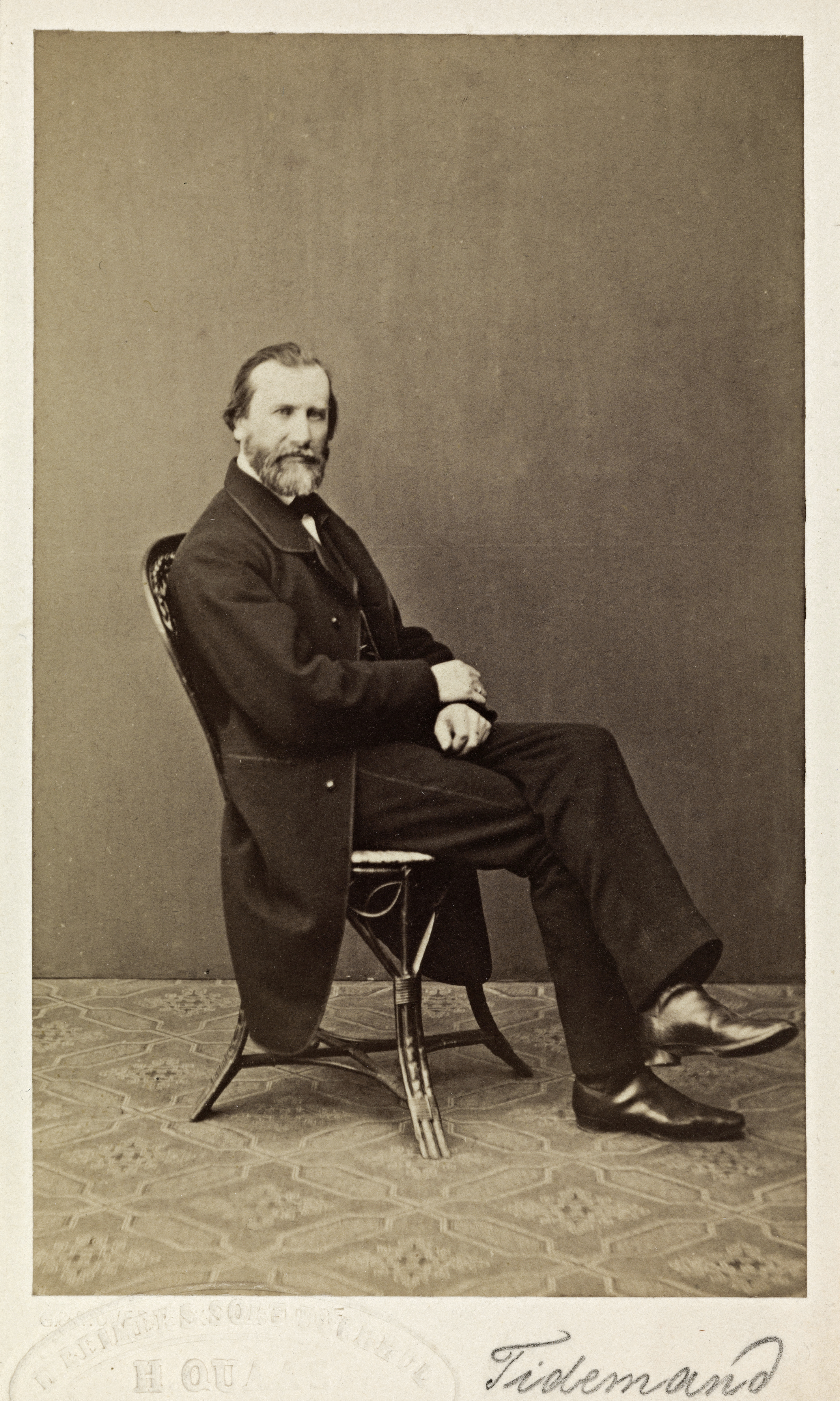 Beskrivelse / Description: Adolph Tidemand var maler. Visittkort / Carte de visite. Dato / Date: ukjent / unknown Fotograf / Photographer: G. & A. Overbeck (Düsseldorf) Digital kopi av original / Digital copy of original: s/h papirpositiv Eier / Owner Institution: Nasjonalbiblioteket / National Library of Norway Lenke / Link: Bildesignatur / Image Number: blds_06006